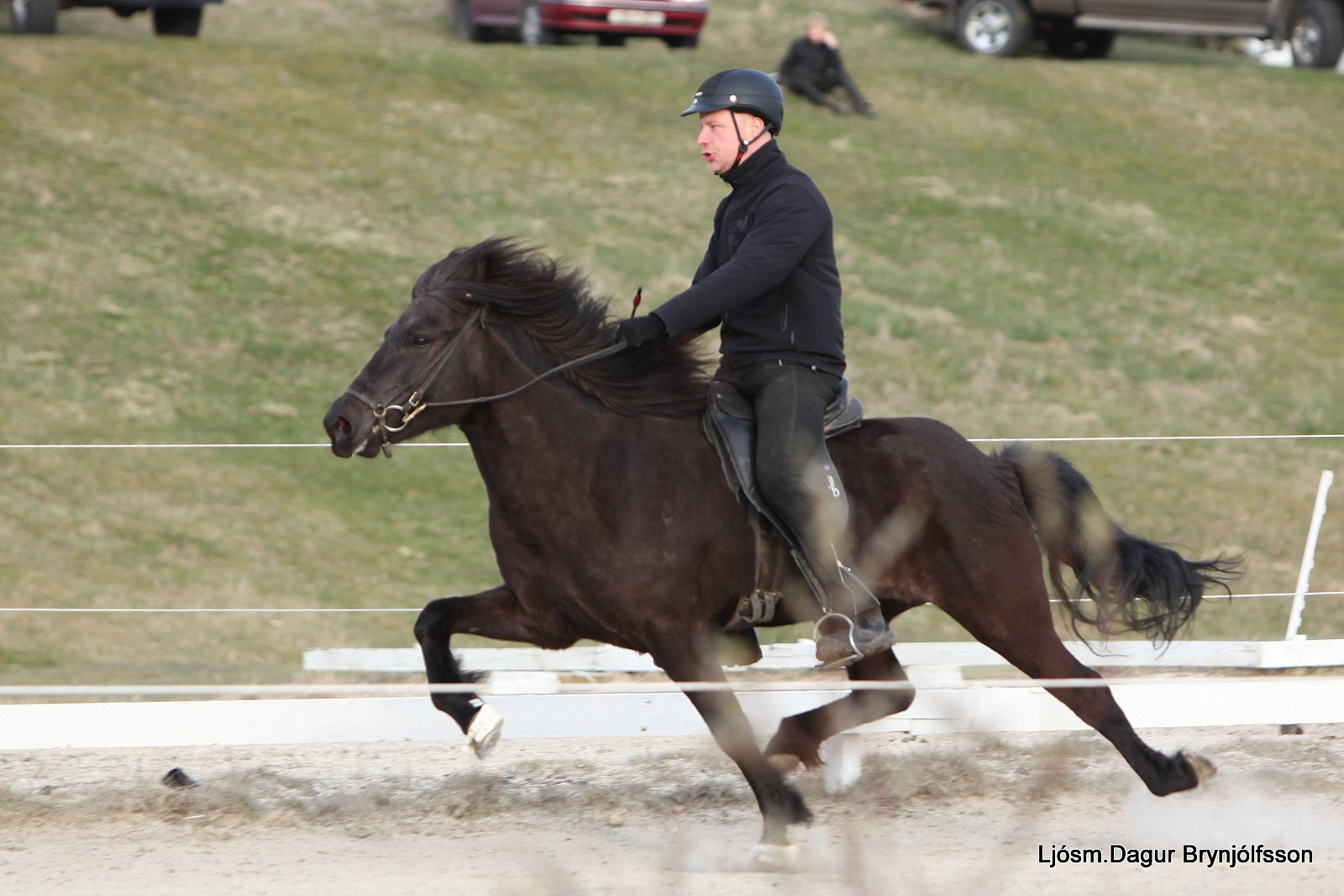 pacing icelandic horse